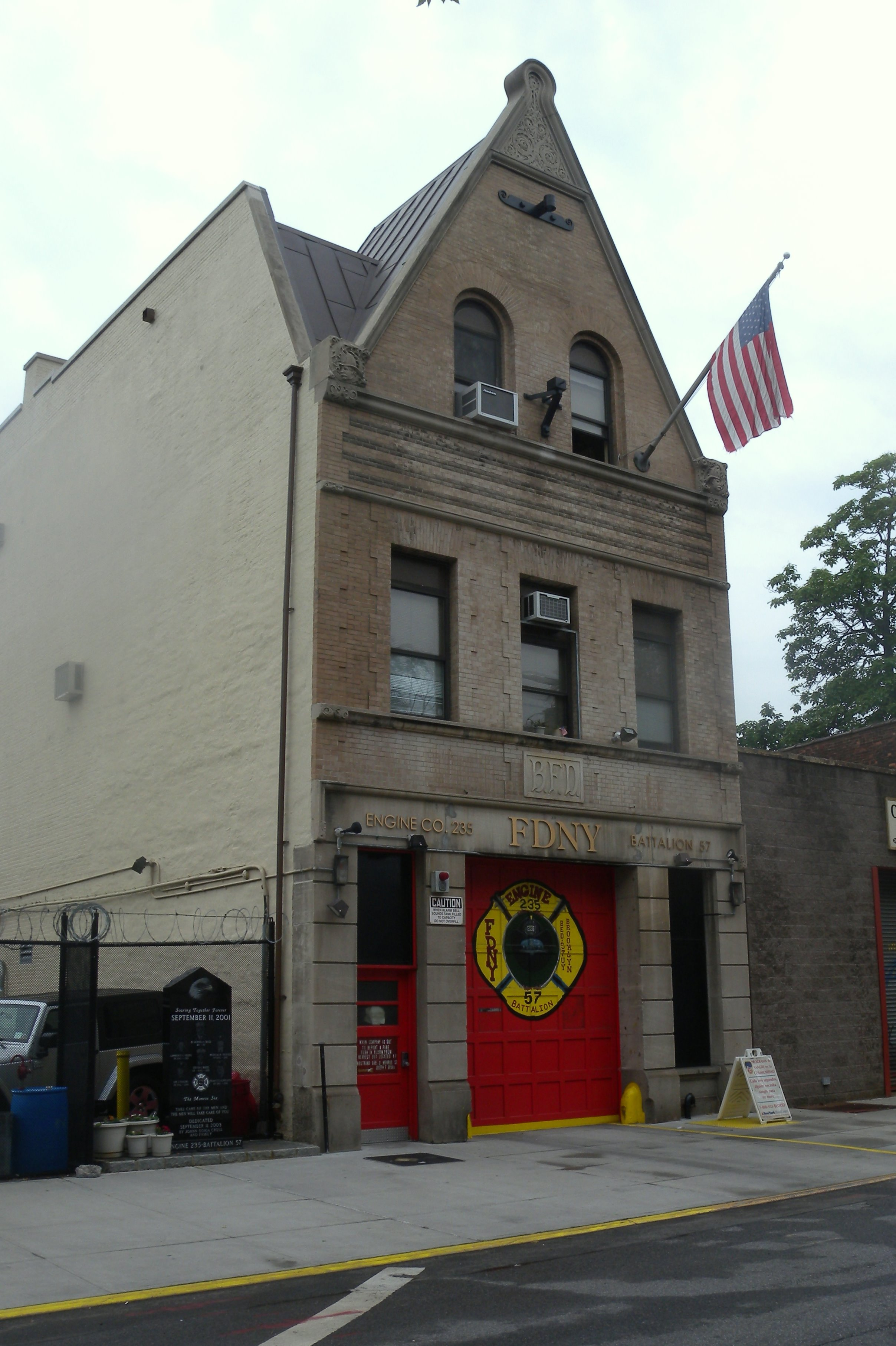 Looking southwest across Monroe Street at house for Engine 235 / Battalion 57 on a cloudy day.